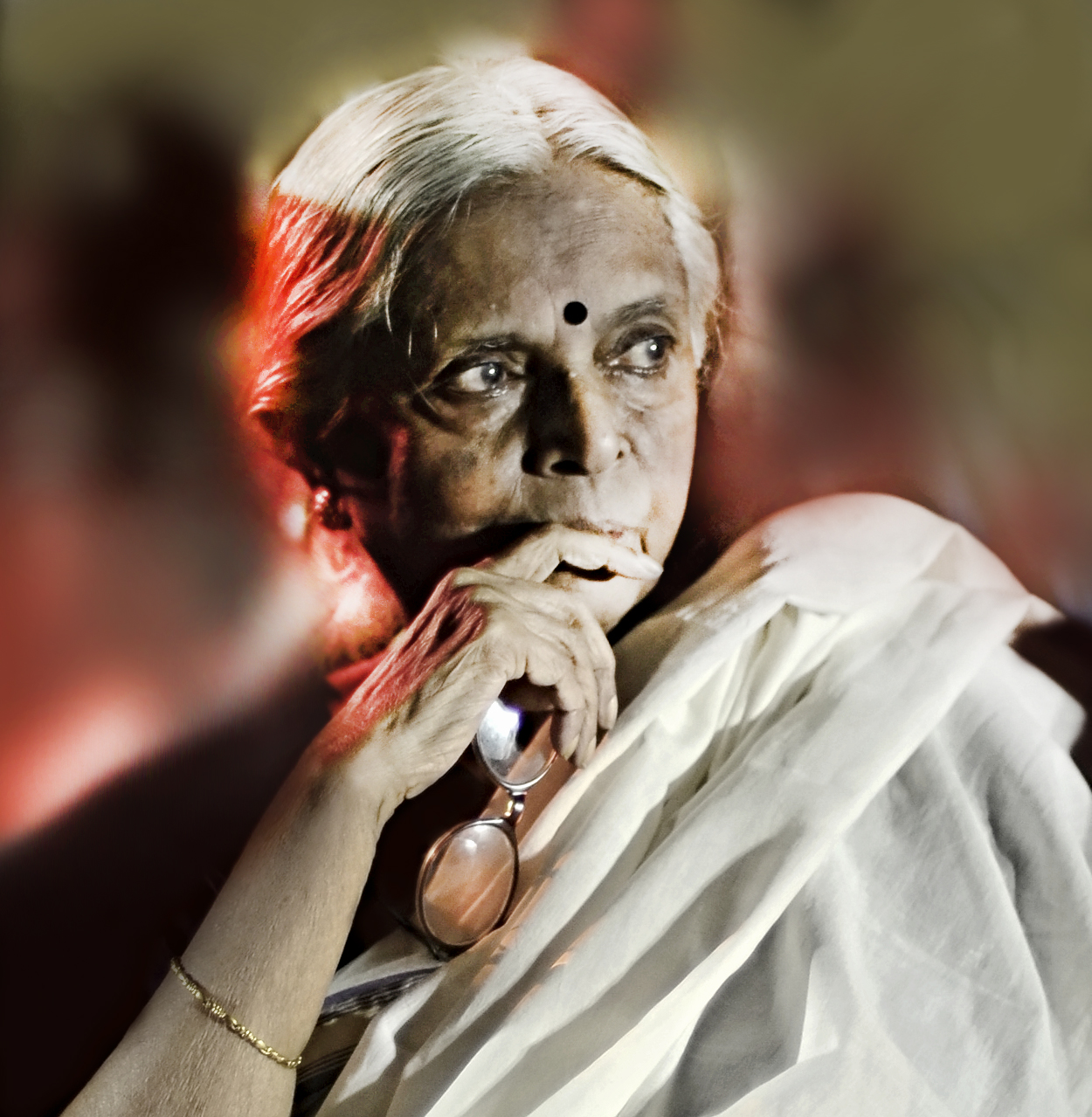 Sugathakumari